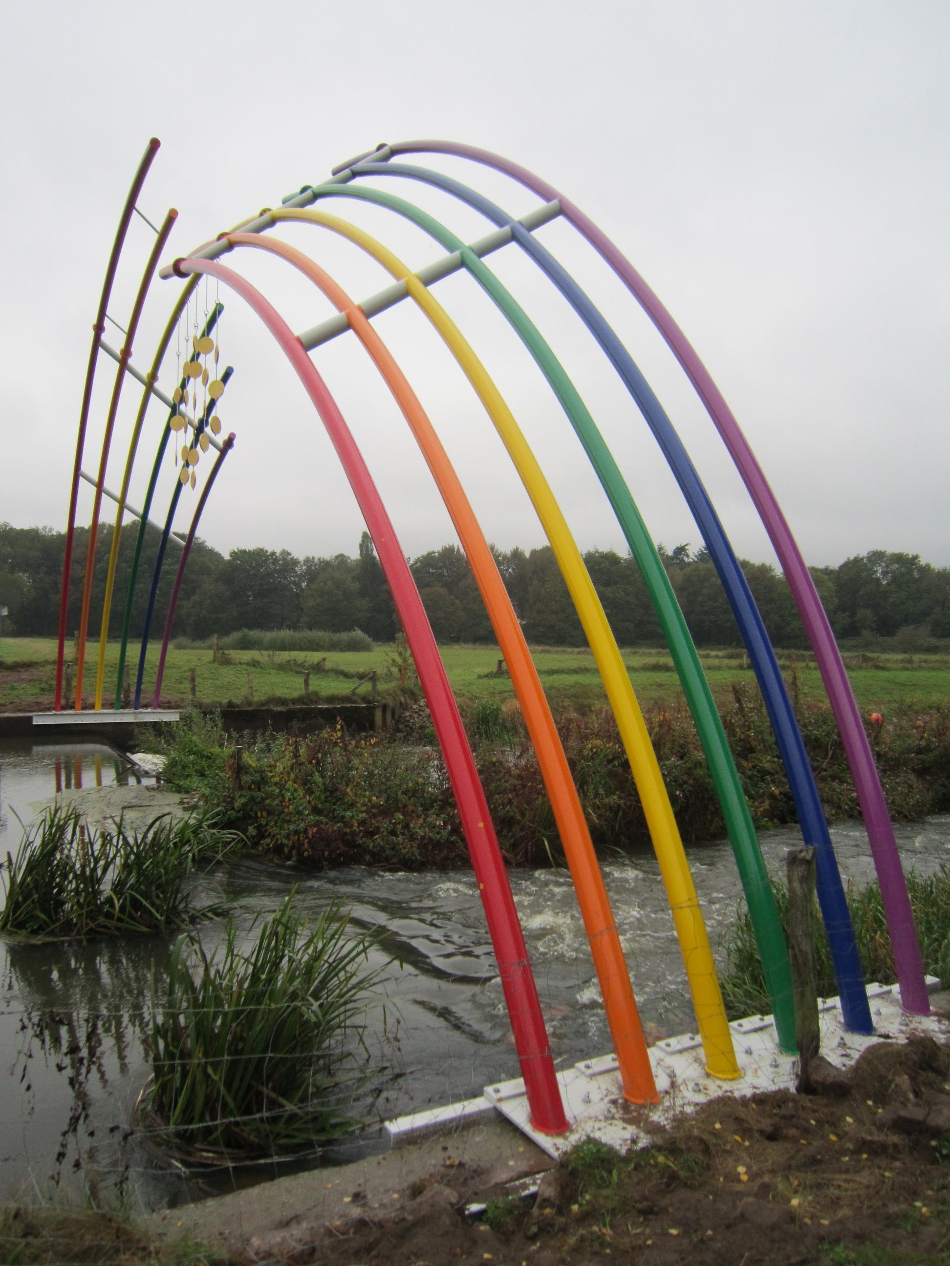 Steel sculpture "Goldregen" south of the "Golden Bridge" across the Hunte between Goldenstedt and Twistringen, symbolizing a rainbow with a treasure of gold